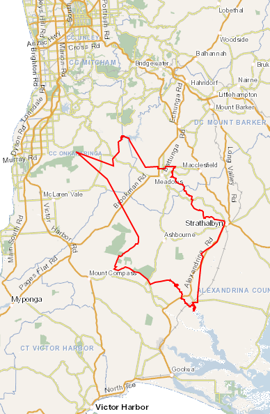 Approximate boundaries of District Council of Kondoparinga in 1853